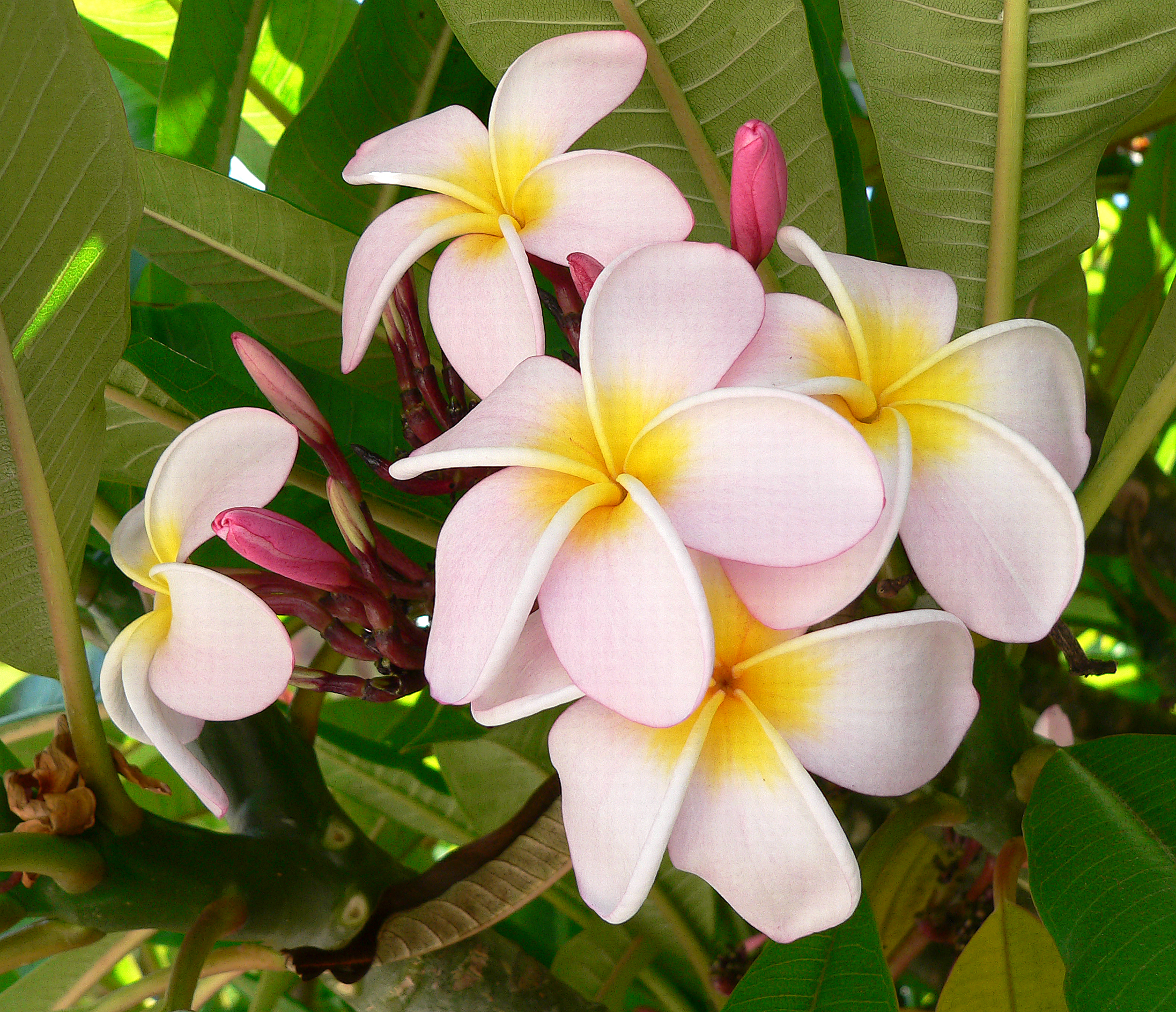 Plumeria (Frangipani) flowers at Constantia, South Africa